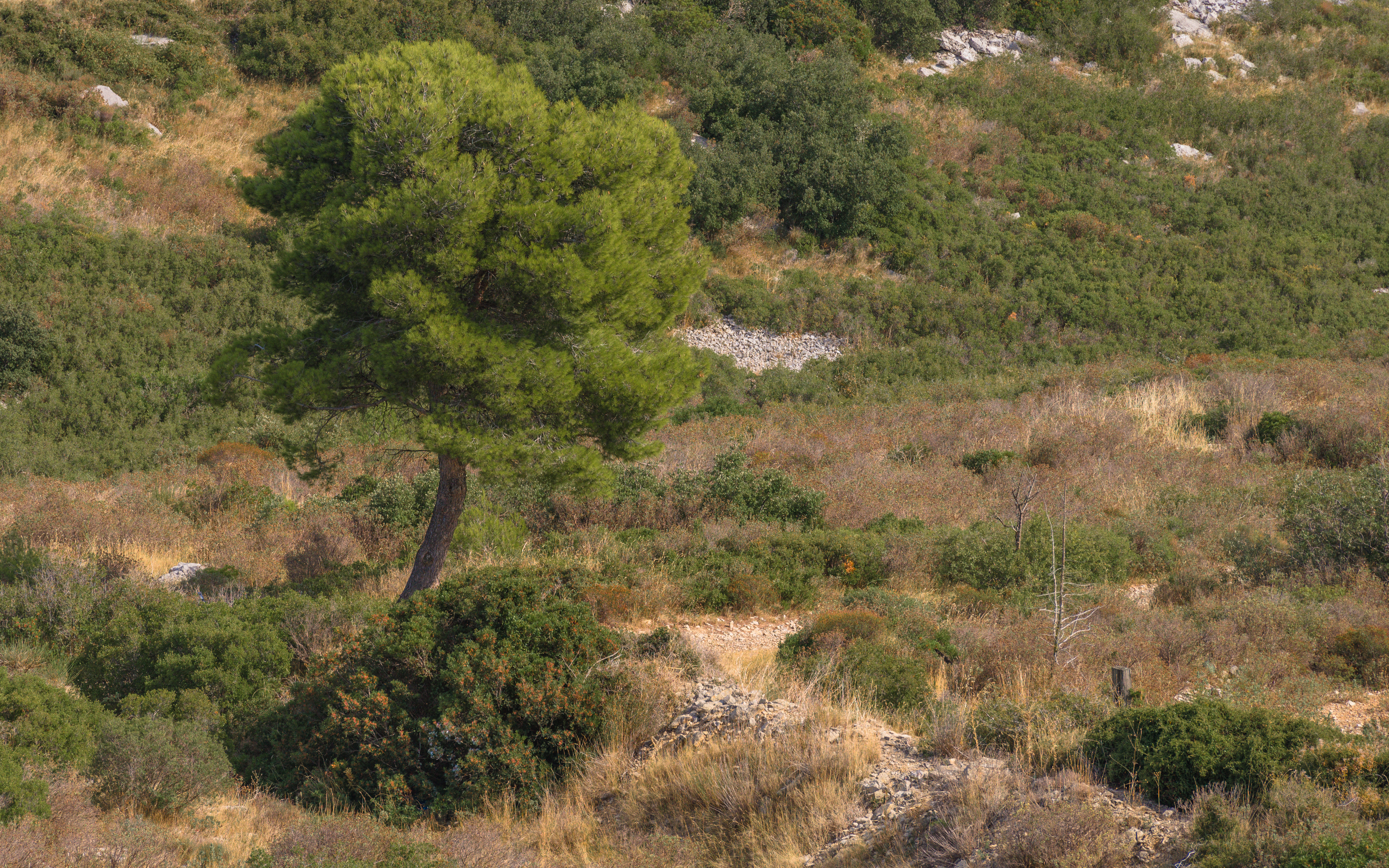 A young Aleppo Pine (Pinus halepensis) on the soil made principally with limestone in the La Gardiole Mountain, Frontignan, Hérault, France.